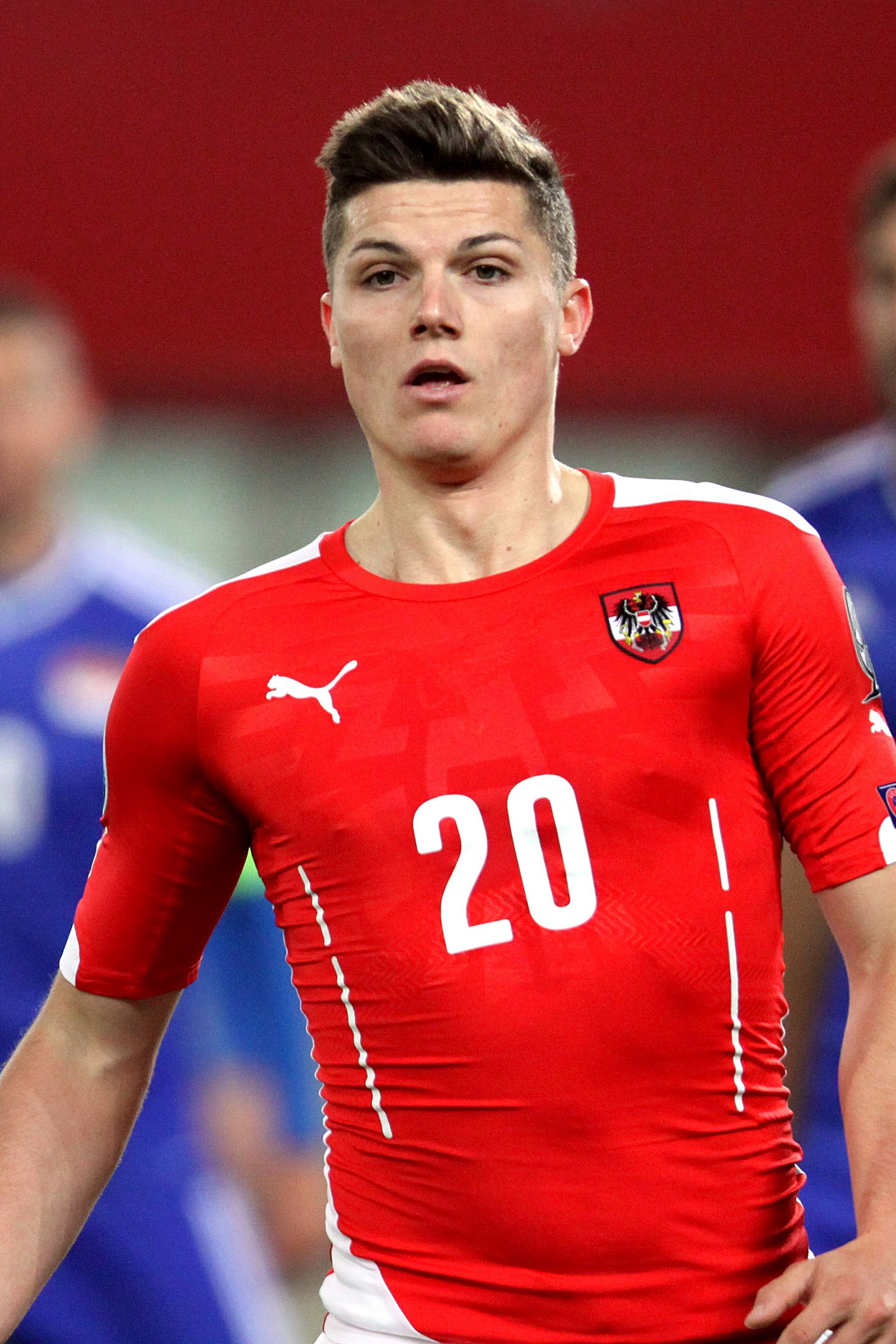 UEFA Euro 2016 qualifying, Group G – Austria (red shirts) vs. Liechtenstein (blue shirts) 3–0 (1–0) on 2015-10-12 in Ernst-Happel-Stadion, Vienna – The photo shows Marcel Sabitzer.